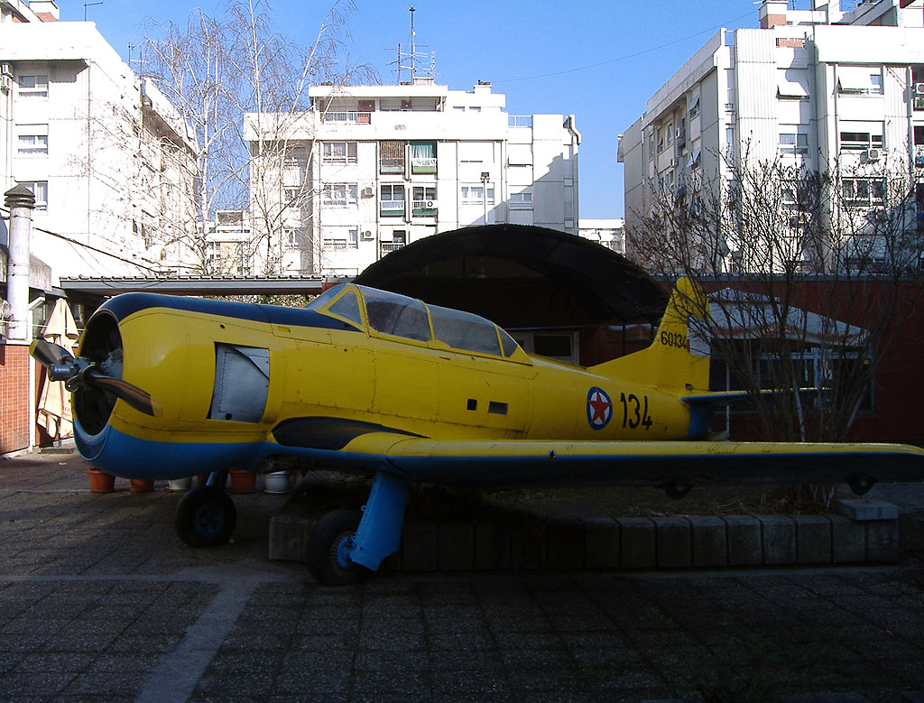 Yugoslav military training and light fighting aircraft Soko 522. Author of the picture is user Marko M.